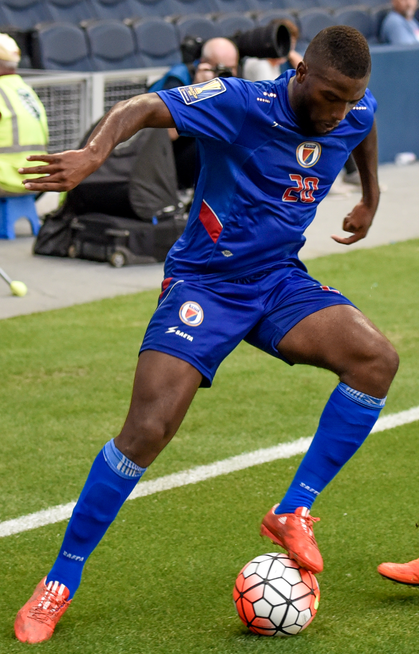 Duckens Nazon of the Haiti working the ball out of the corner against Honduras Maynor Figueroa.